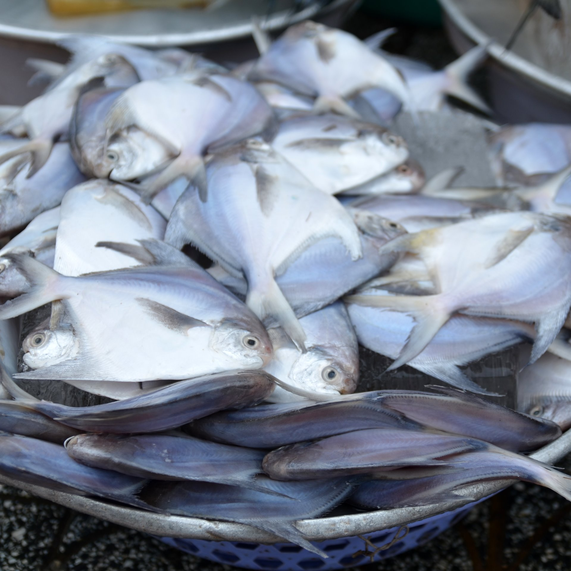 Silver pomfret (Pampus argenteus) at a market in Saigon.